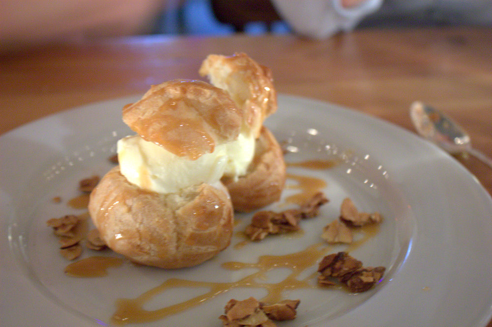 Get the full scoop